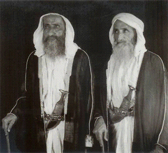 The Photo of Sheikh Saeed Bin Maktoum (right) and his brother Sheikh Juma Bin Maktoum (left)